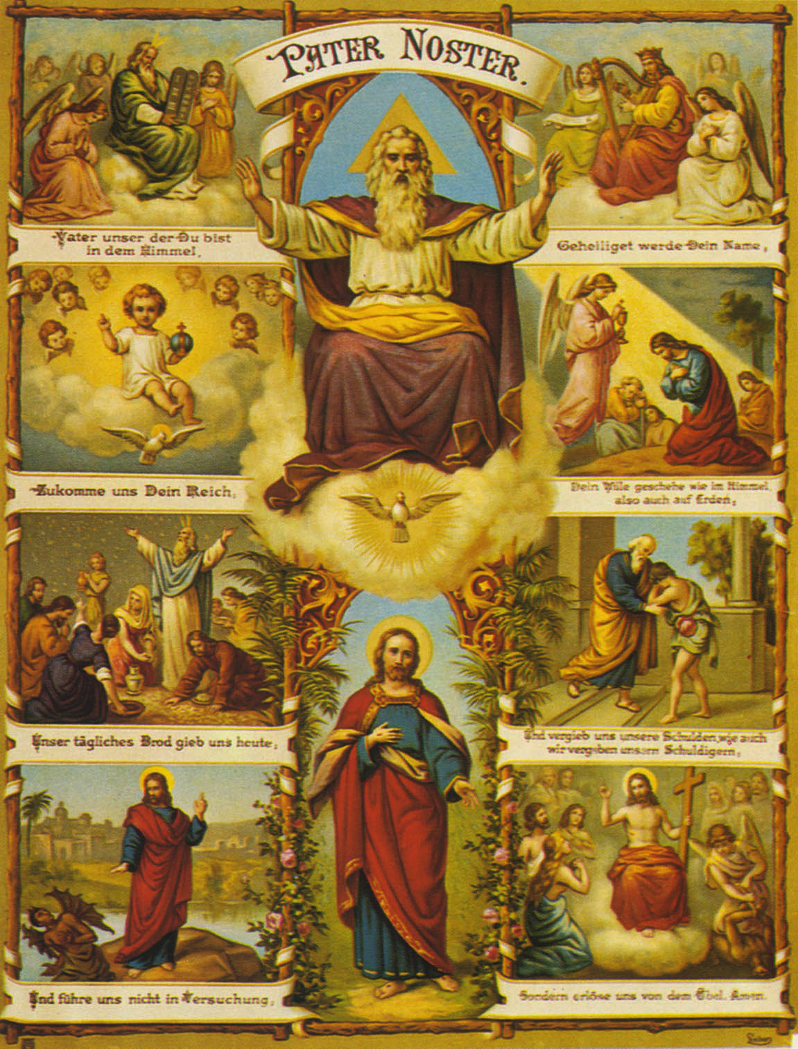 Text of "Our Father" prayer with Trinity in central column (God the Father, dove of the Holy Spirit, Jesus) and Biblical and symbolic scenes in left and right columns.